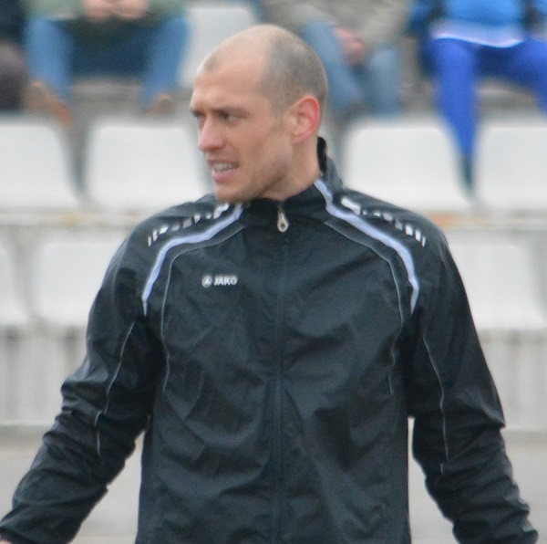 Serbian football goalkeeper Aleksandar Canovic.